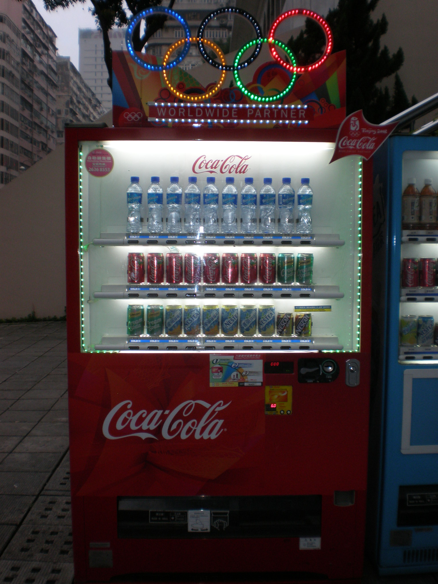 A Coke vending machine with the Olympic rings on top near the eastern entrance of Kowloon Park on Nathan Road.